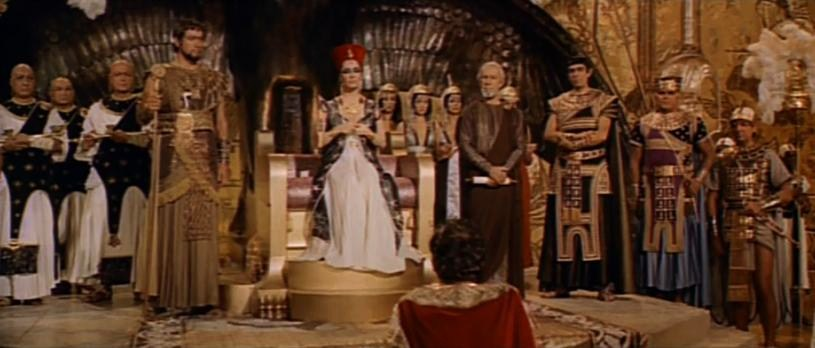 Set from Cleopatra - trailer (cropped screenshot)